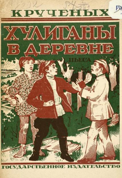 Cover of the play of Alexey Kruchenykh "Hooligans in the village", 1927